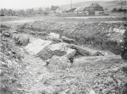 The gallery grave Atteln I during the excavation in 1926